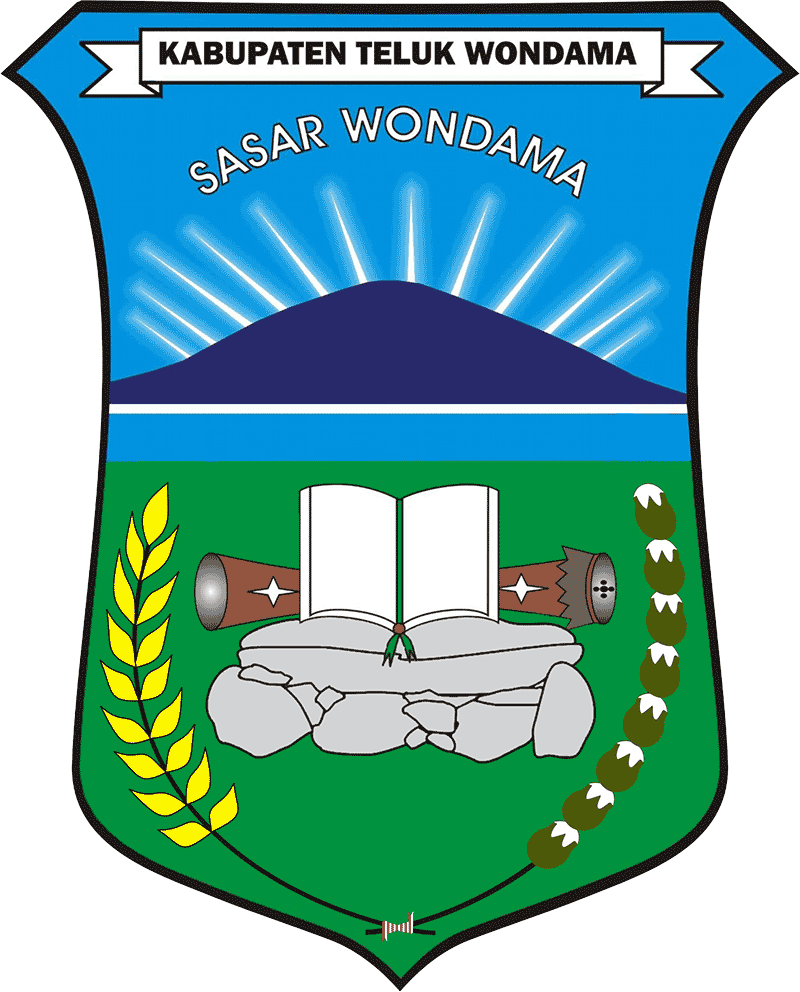 Coat of Arms (Lambang) of Regency (Kabupaten) Teluk Wondama, Province (Provinci) Papua Barat (West Papua), Indonesia